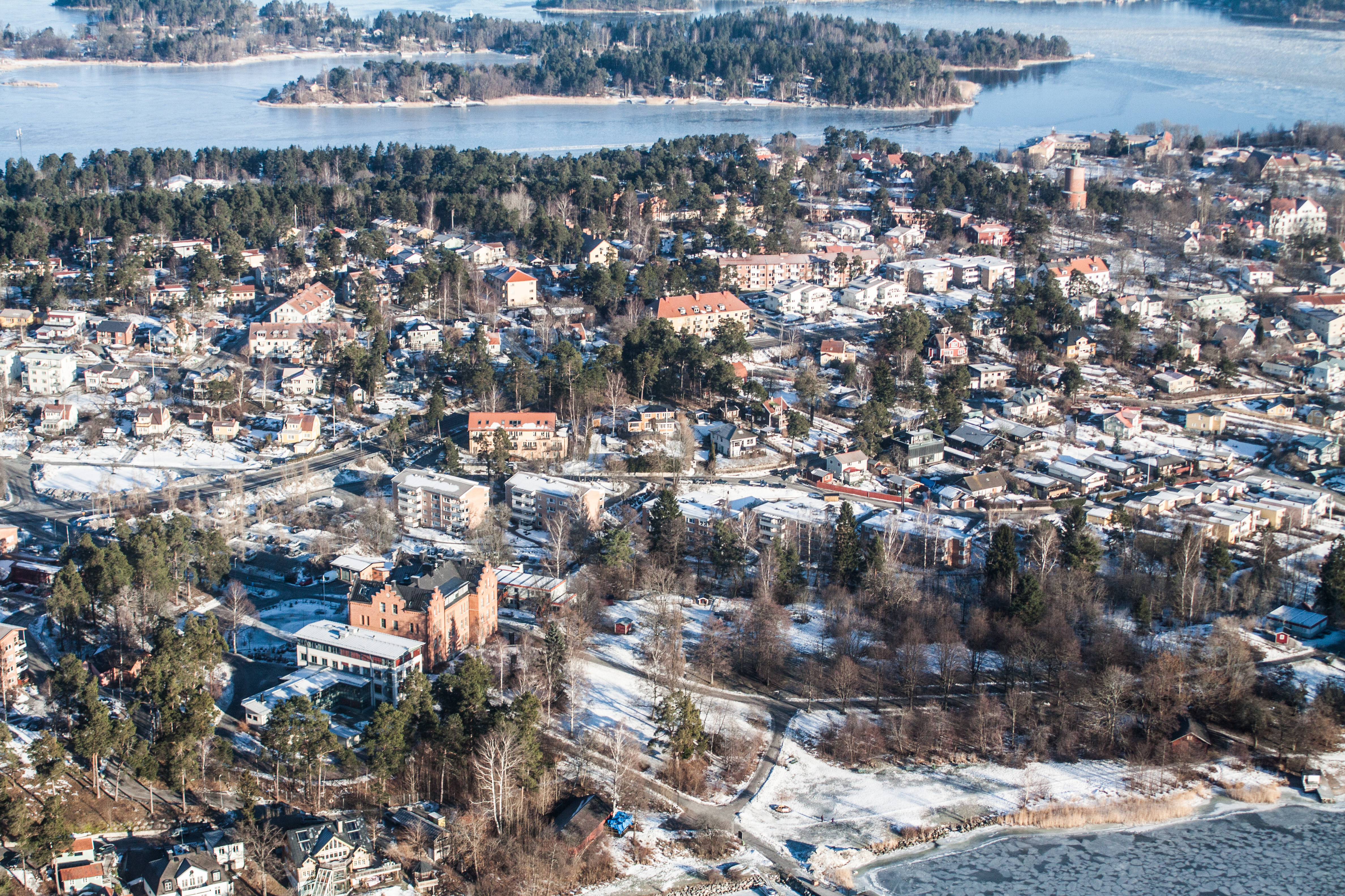 The middle section of the island of Vaxön and the town of Vaxholm, with the smaller islands of Edö Tallholme and Edholma behind. The Söderfjärdsskolan can be seen bottom left, and Vaxholm's old watertower top right. Aerial images over Stockholm's Archipelago arranged by Wikimedia.